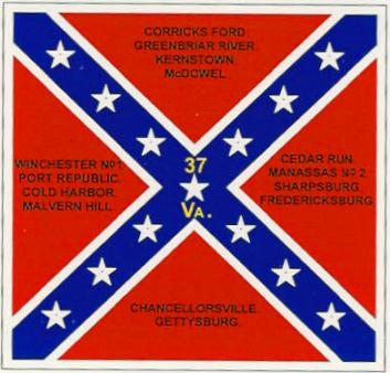 Author:anonymous Source:personal files